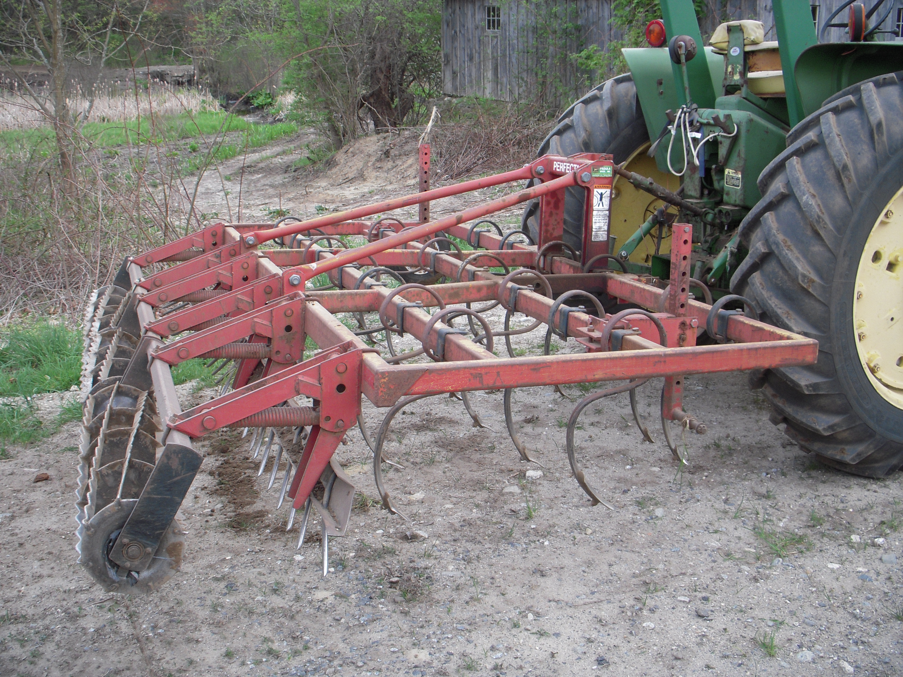 Perfecta II field cultivator (by UM, Unverferth Manufacturing Company) behind a John Deere tractor at a farm in Massachusetts, USA. This implement loosens the soil and fills in ruts from plowing.